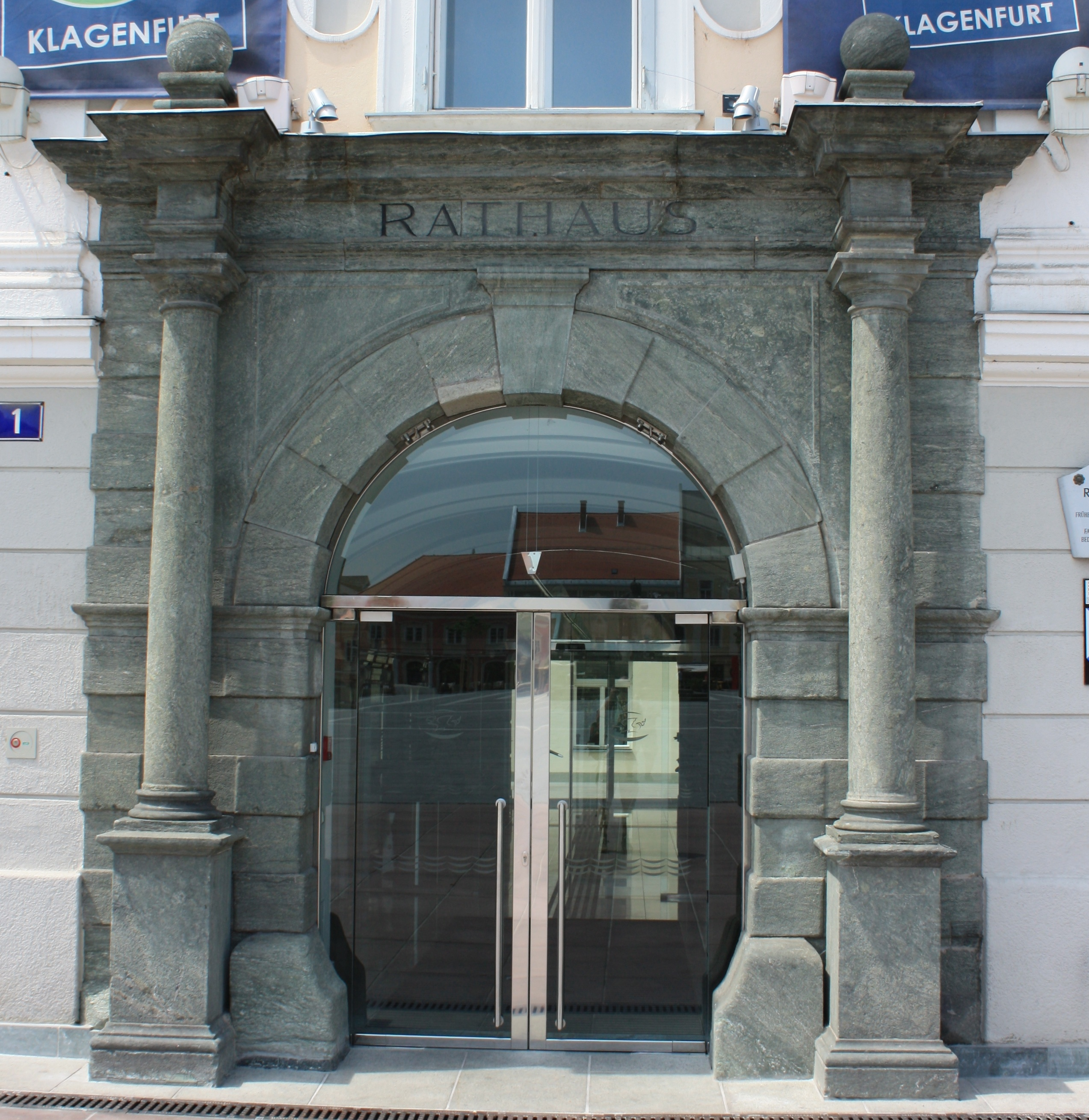 Portal of the townhall Locality: Neuer Platz Community:Klagenfurt